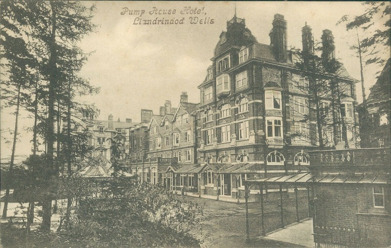 Postcard showing Pump House Hotel, Llandrindod Wells